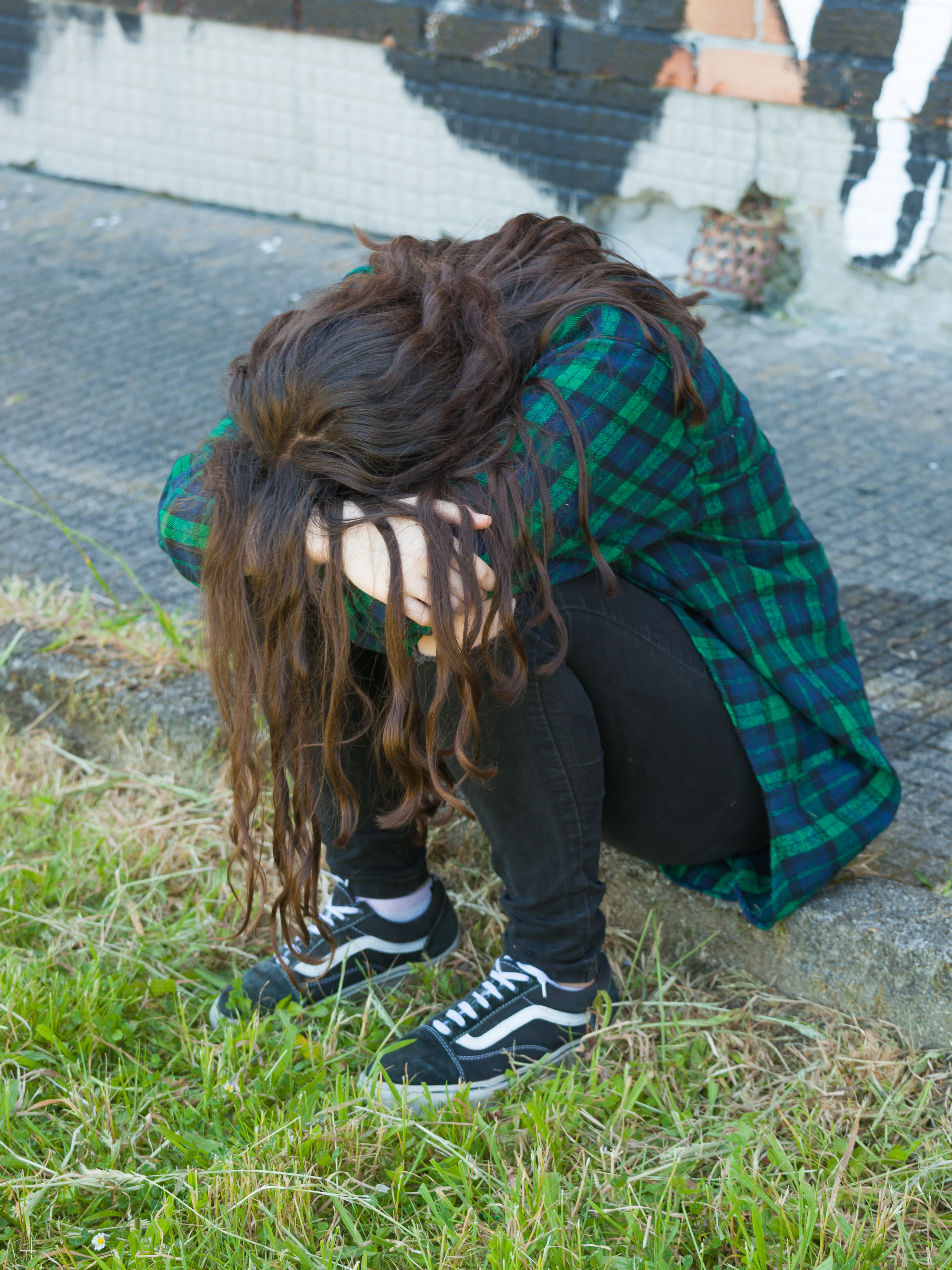 Bleakness, sadness, desolation. Girl from A Estrada, Galicia (Spain).